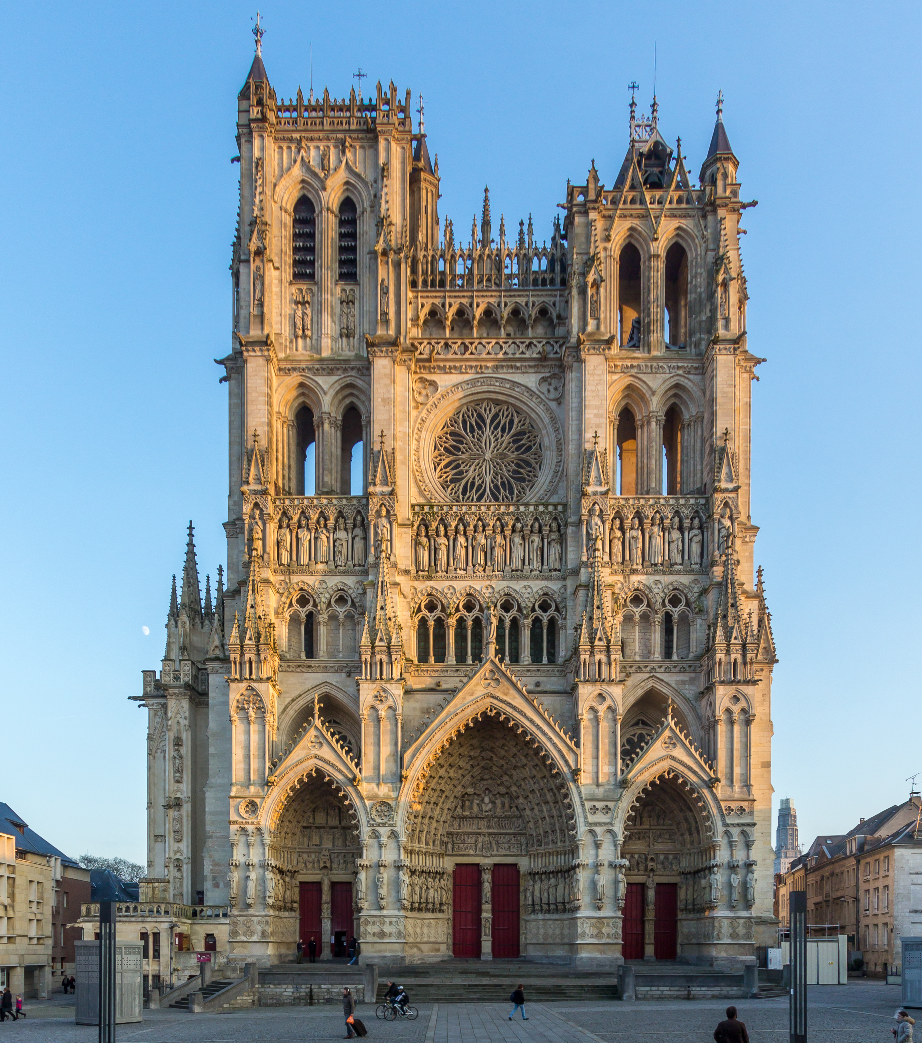 Amiens Cathedral with the moon on the left side